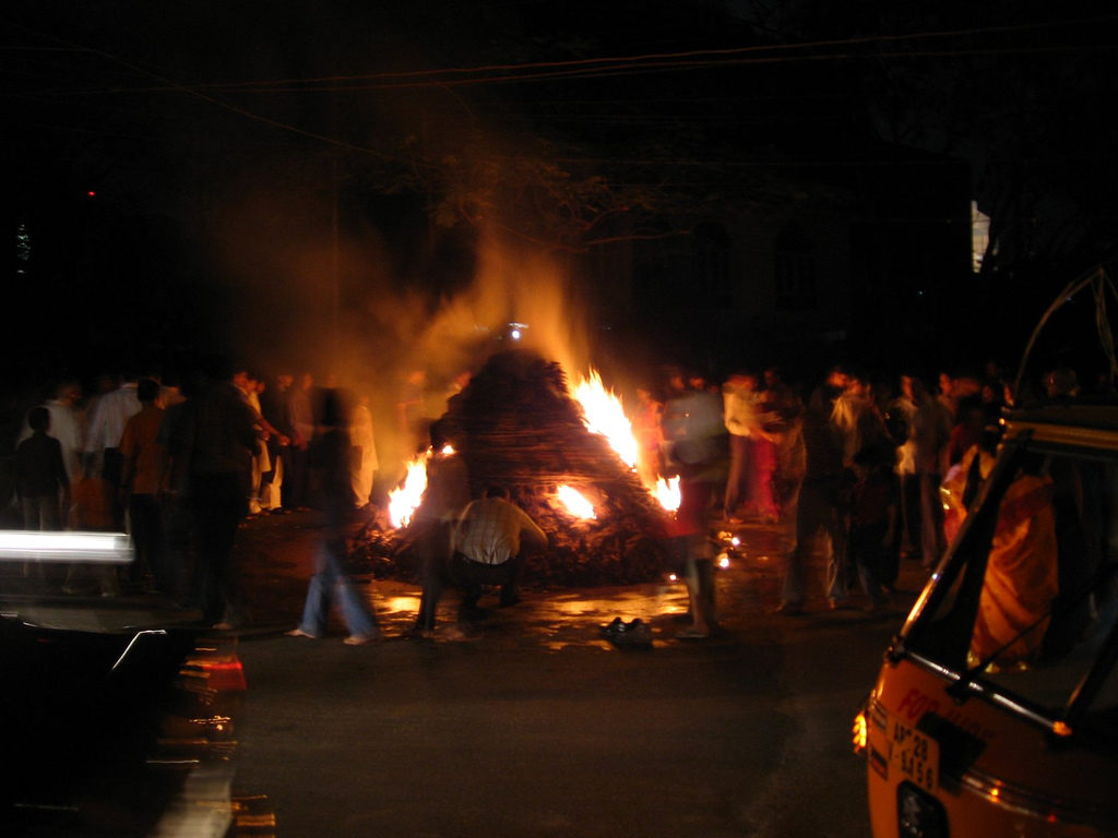 Holi bonfire.